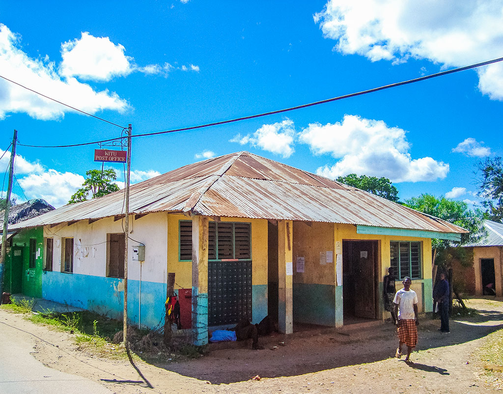 The Post Office at Witu, on the way to Lamu, which was once a German Protectorate.